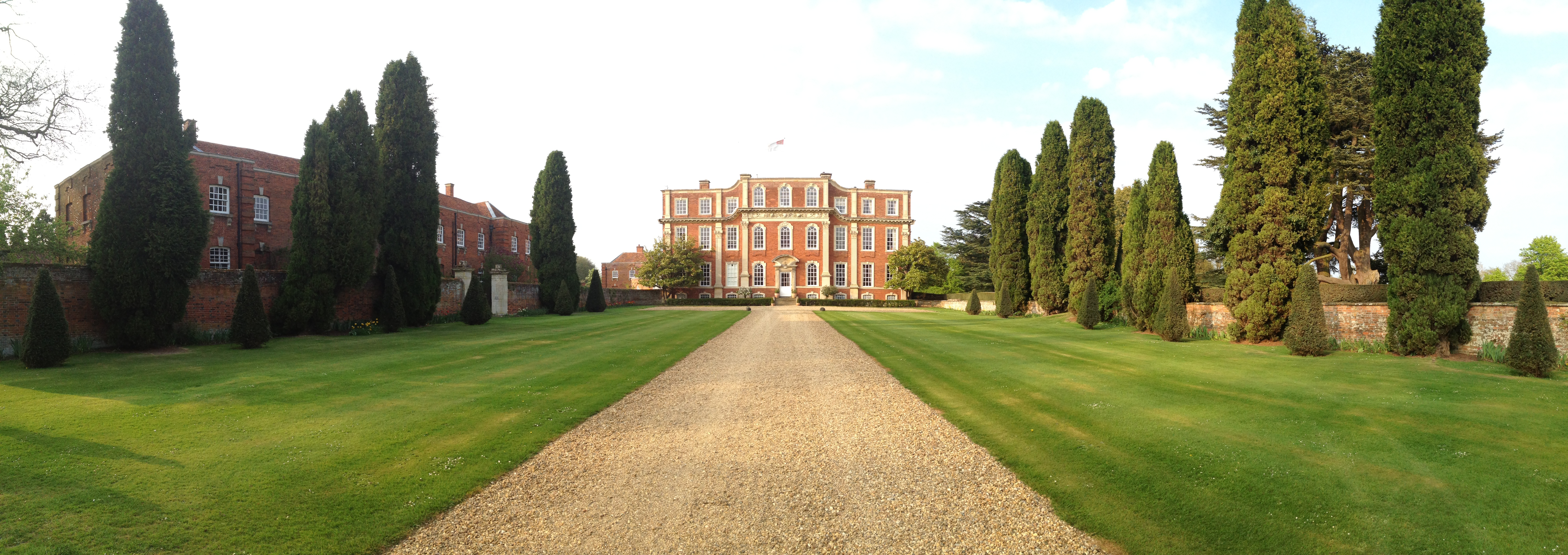 Chicheley Hall in Newport-Pagnell, England.